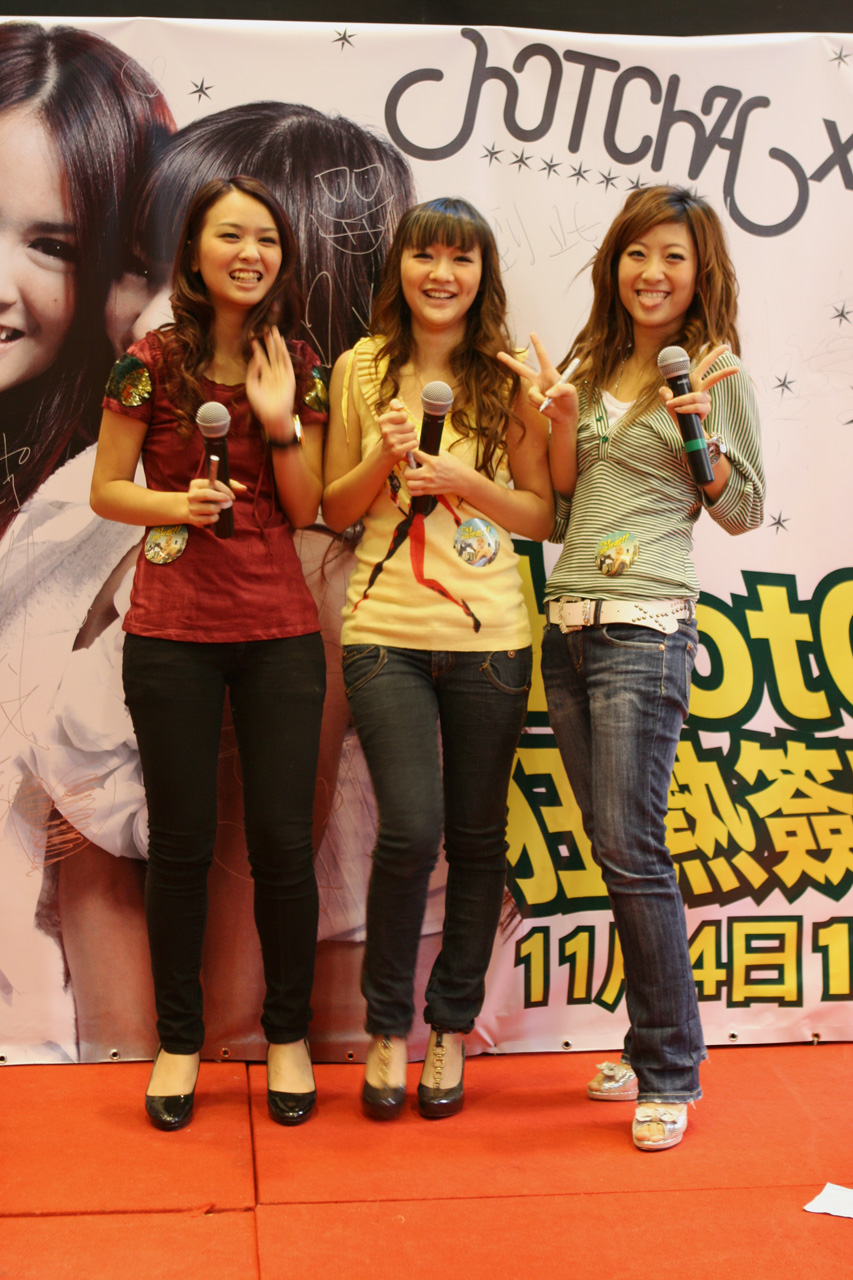 HotCha hotcha